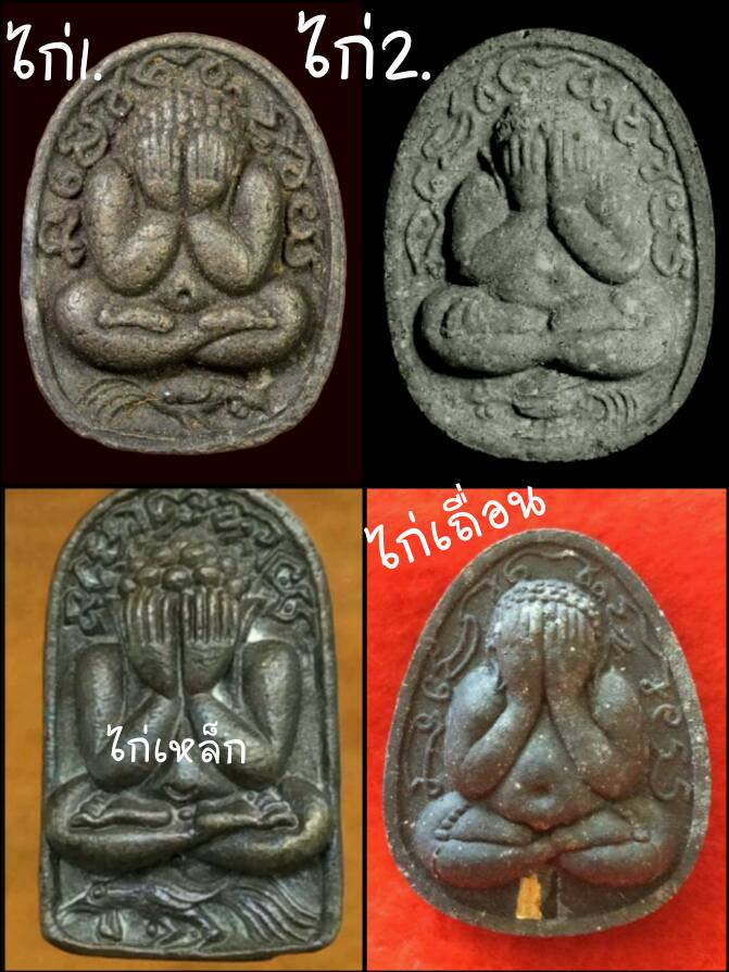 พระผงปิดตา